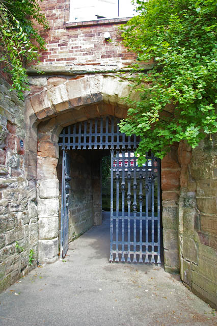 The water gate - Worcester Cathedral Proving access to the precinct of Worcester Cathedral from the river, the water gate was built in 1378 by Brother William Power. Prior to the construction of Diglis Lock and Kleve Walk access to the water would have been via a flight of steps. The entrance to the water gate would have flooded twice a day, allowing boats to reach the gate. This is the only surviving gateway in the mediaeval city defences and an integral part of the cathedral precinct wall. The decorative gates are modern.